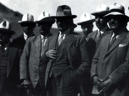 Mustafa Kemal with hat after the 1925 hat reform - in AnkaraTürkçe: Mustafa Kemal 1925 şapka reformundan sonra şapkasıyla Ankara'da.